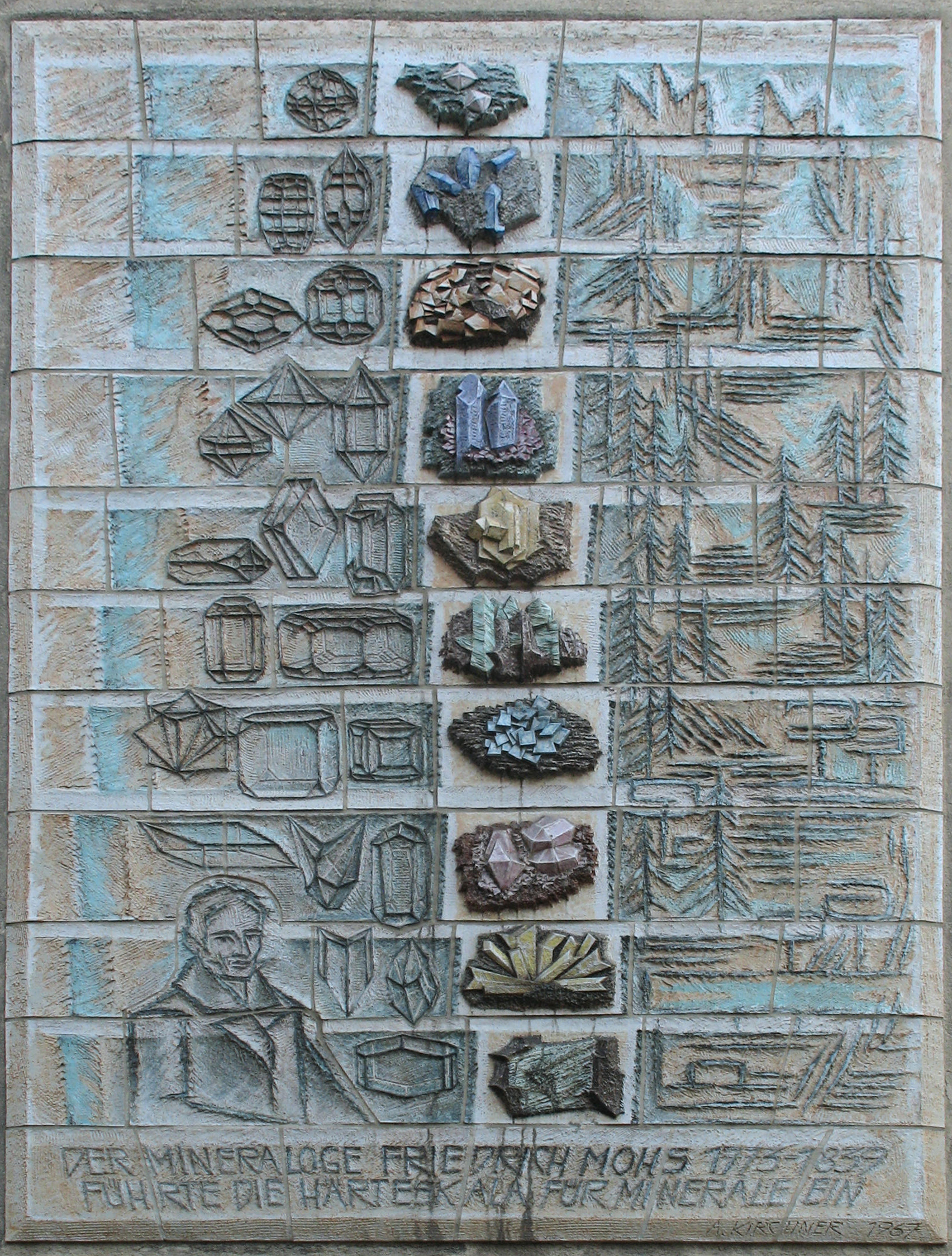 Memorial plaque of Friedrich Mohs in Vienna, Austria